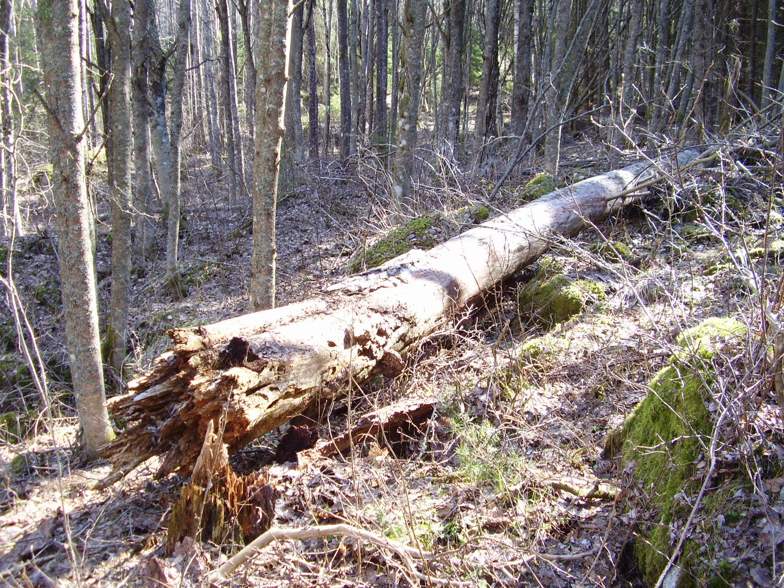 Decay tree. Diversify in forest.